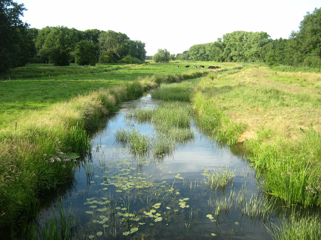 The stream „Warbel“ near the village Wasdow in the municipality Behren-Lübchin, district Rostock, Mecklenburg-Western Pomeranian, Germany).